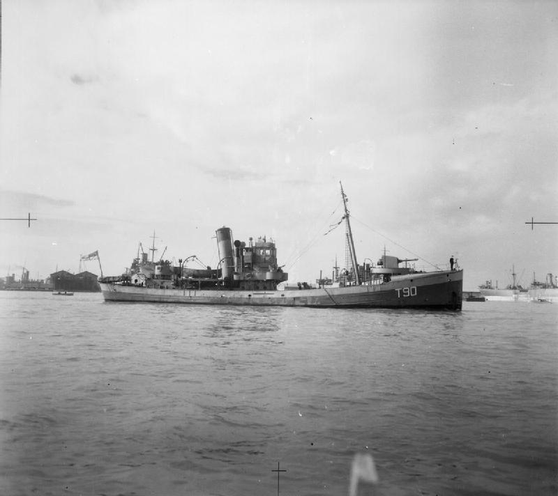 Hmt Moonstone Underway.